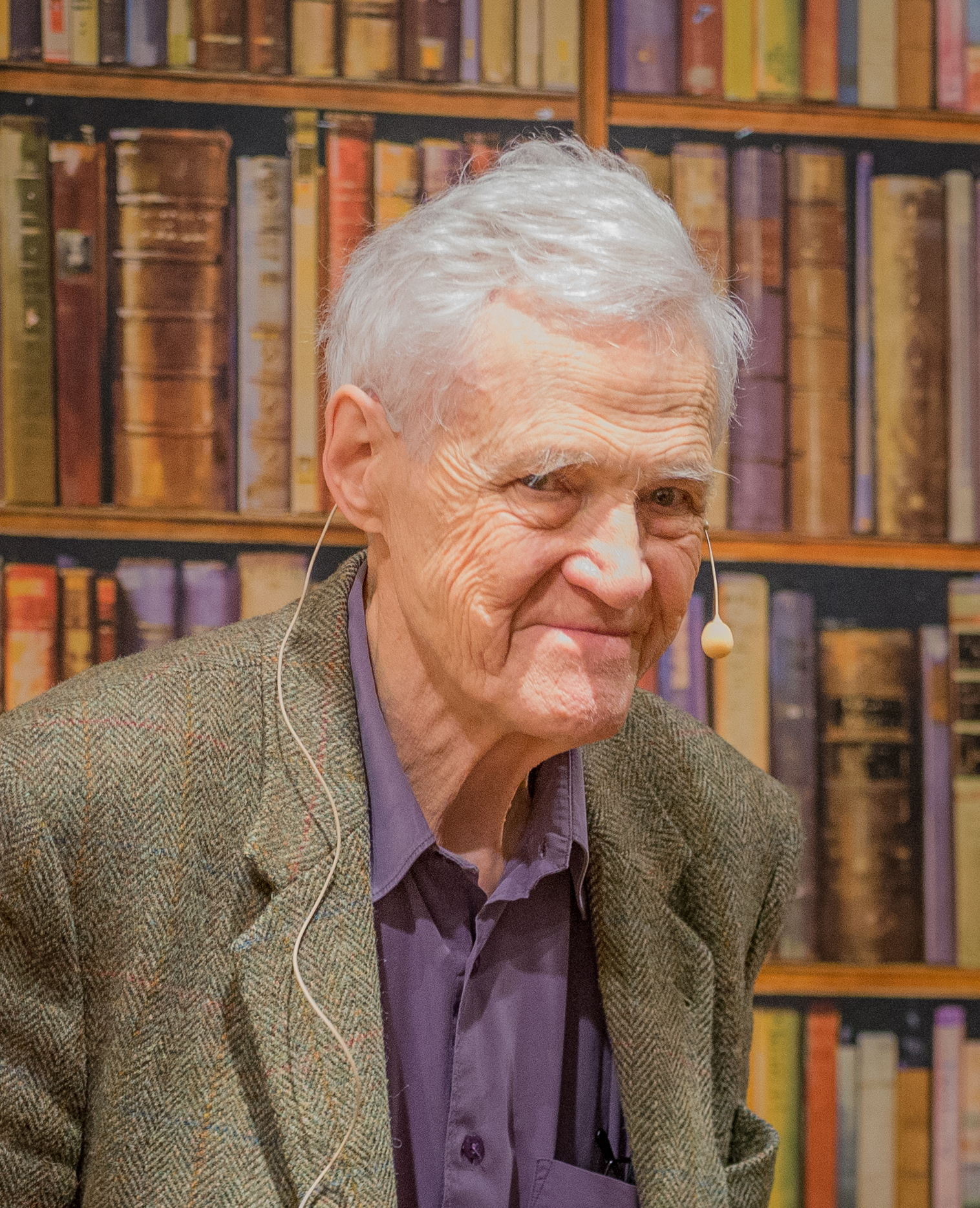 In conjunction with Carl-Henning Wijkmark's 80th birthday in November 2014, a collections edition will be published in two bands - from the 1972 debut with the Jägarna at Karinhall, via the 2007 August Prize-winning Stundande night through to his latest novel We'll See Again in the Next Dream, from 2013.